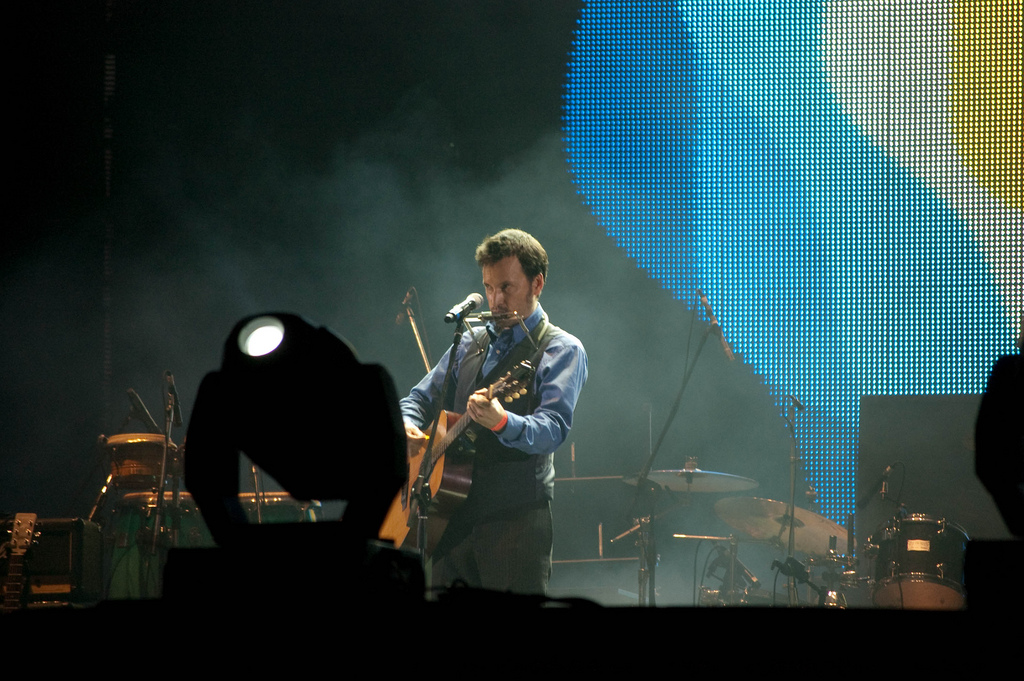 Homenaje al Rock Nacional. Antonio Birabent.